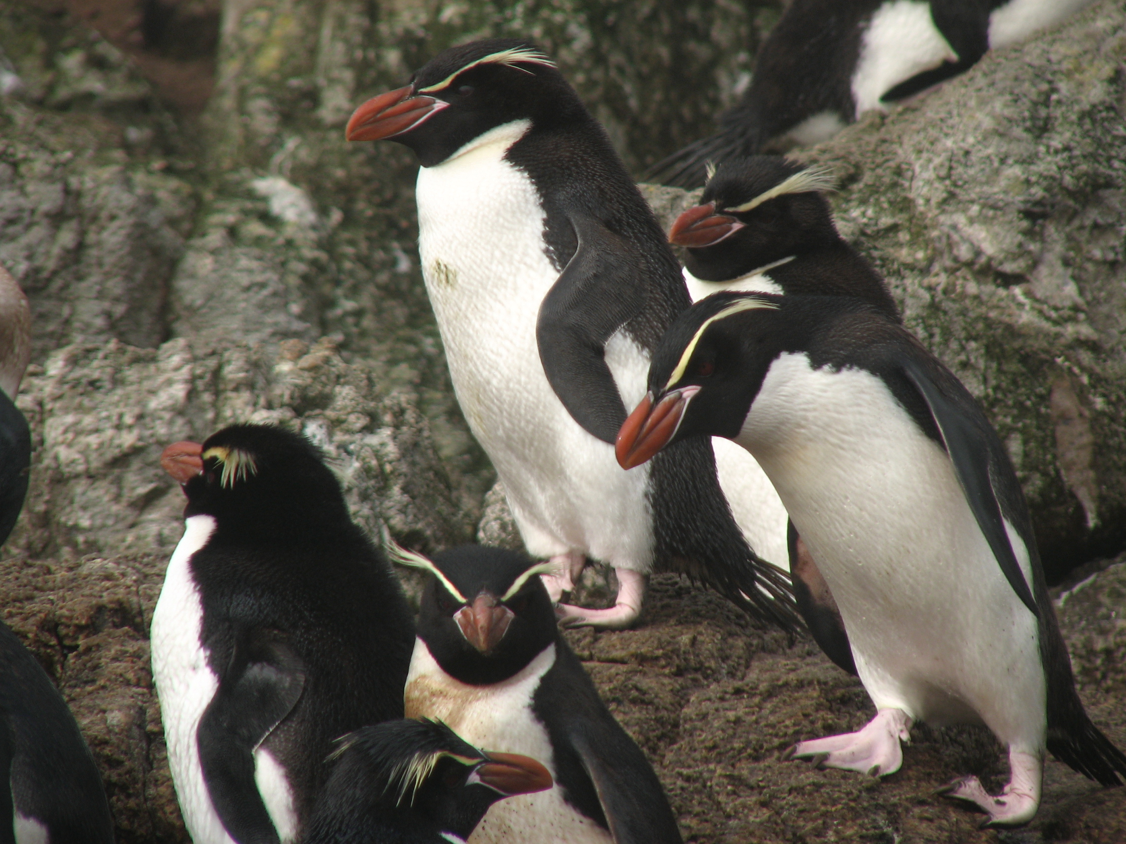 Snares Penguin (Eudyptes robustus), also known as the Snares Crested Penguin and the Snares Islands Penguin. Photo taken on the Snares 2007